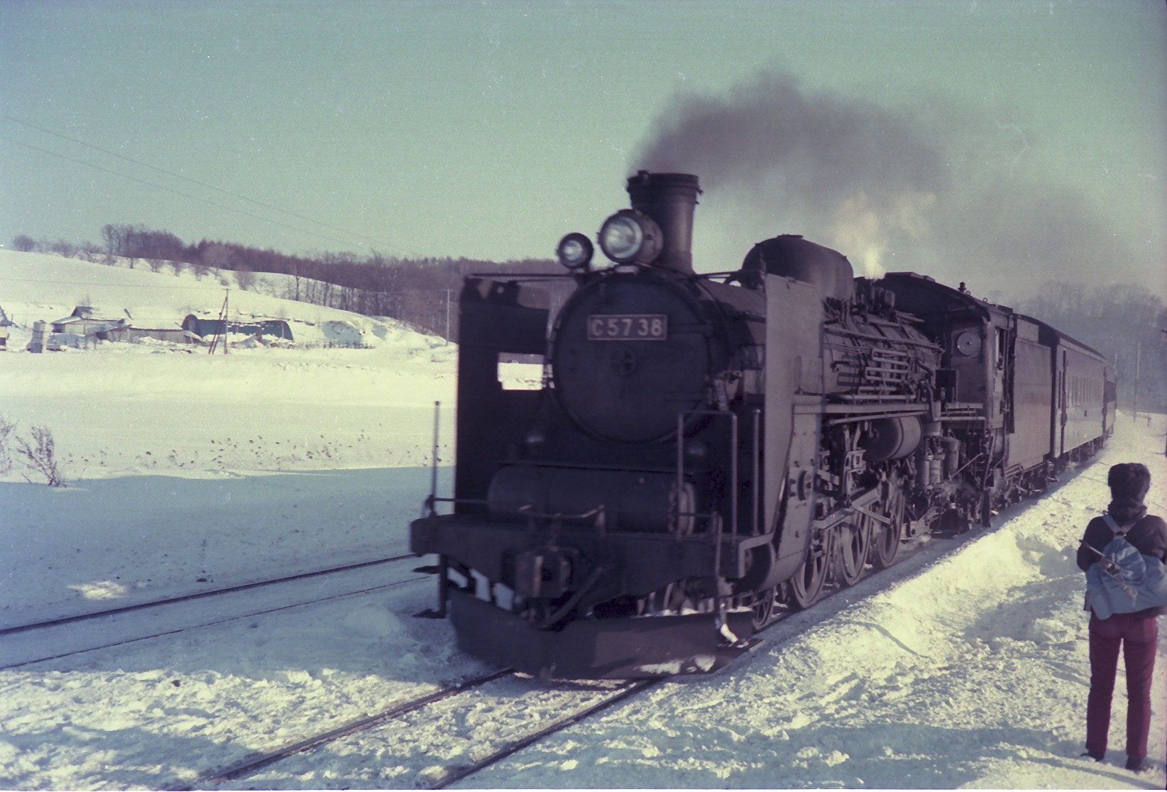 C57 38 of the Muroran Main Line pulling passenger cars. 1974.